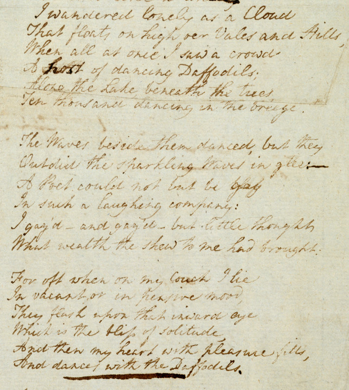 A hand-written manuscript of William Wordsworth's 'I wandered lonely as a cloud' also known as 'Daffodils' (1802). It was inspired by a visit to Ullswater. © The British Library Board 065858. BL Add. MS 47864